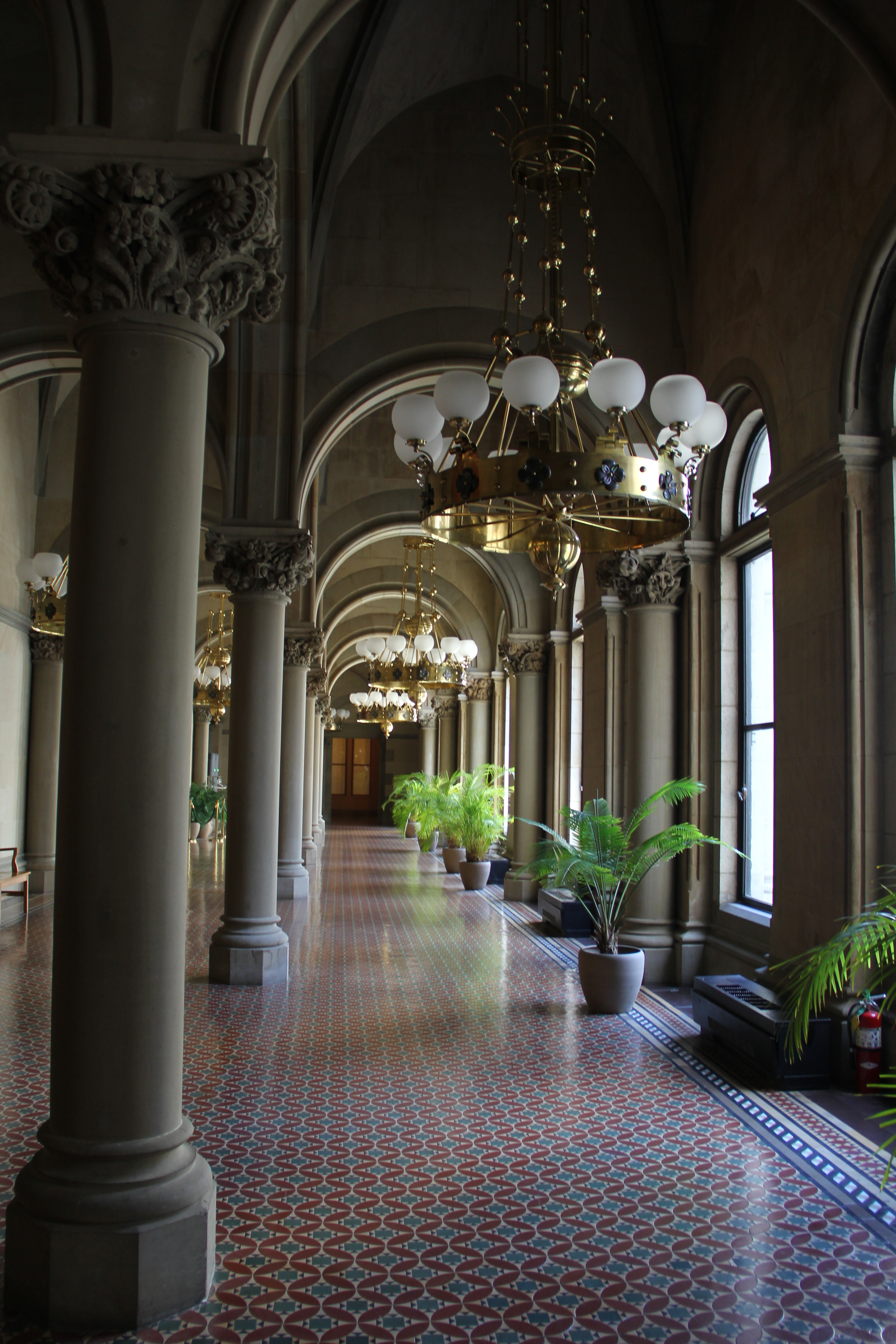 This photo looks down the hallway that runs alongside the upper floor of the New York State Senate chamber. The public viewing galleries are accessible from this area.